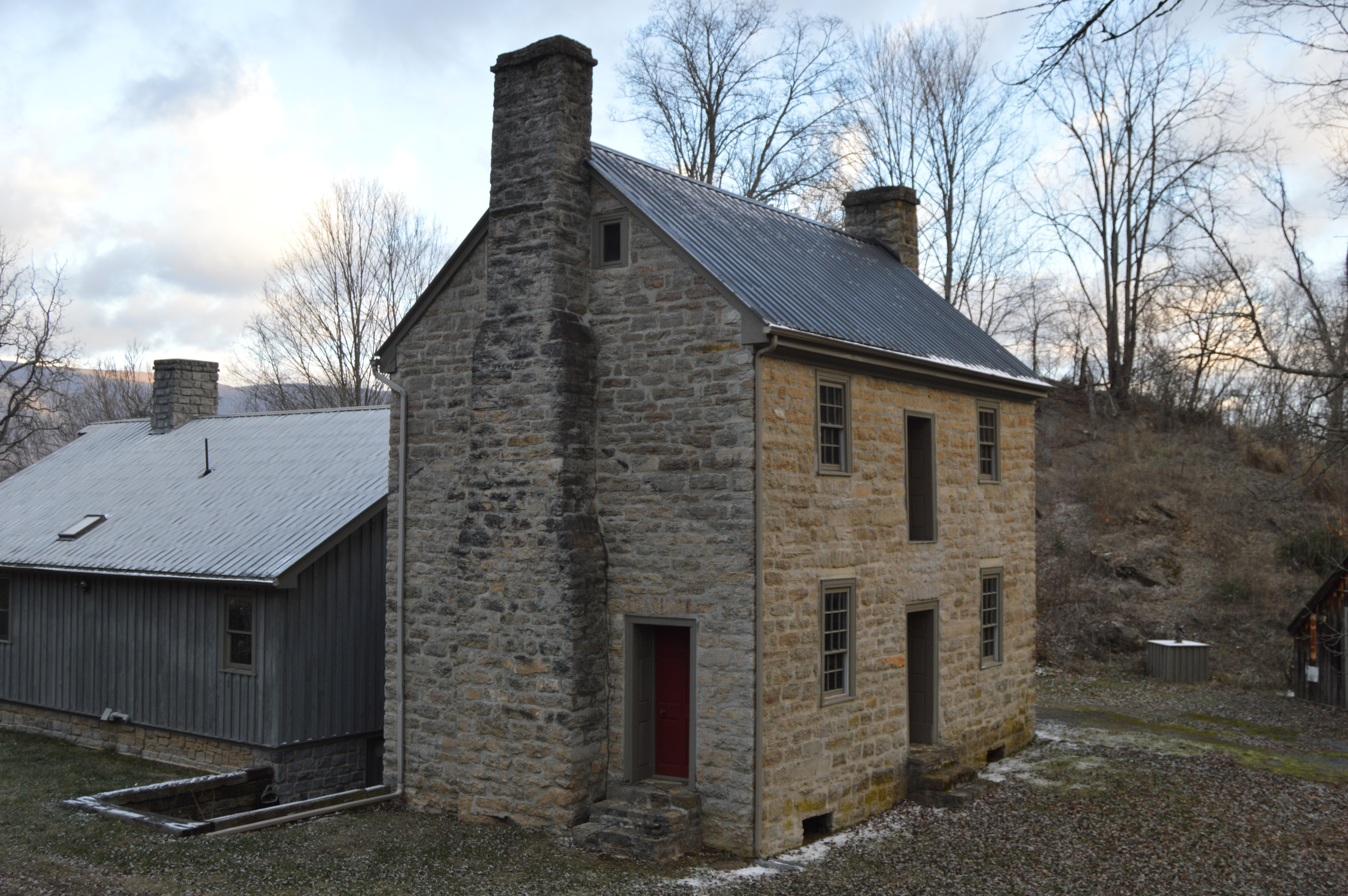 Front and southwestern end of the Scott-Walker House, located on Buckeye Hollow Road east of Saltville in Smyth County, Virginia, United States. The single-story section is a later construction. Built in 1800 and one of the county's oldest houses, it is listed on the National Register of Historic Places.